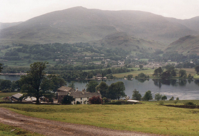 Bank Ground, Coniston. Coniston village and Old Man on the other side of lake. The farm is believed to be Holly Howe in Arthur Ransome's books about Swallows and Amazons.